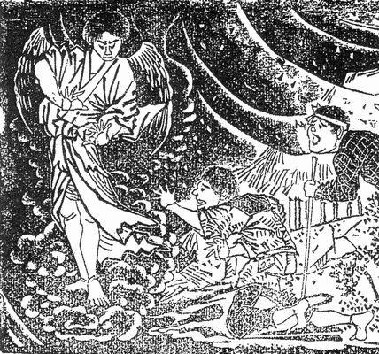 Tengu-sarai (天狗攫い, Spiriting away by a tengu) in Hyōgo Prefecture (兵庫県) from the Saikyō-Shimbun (西京新聞)